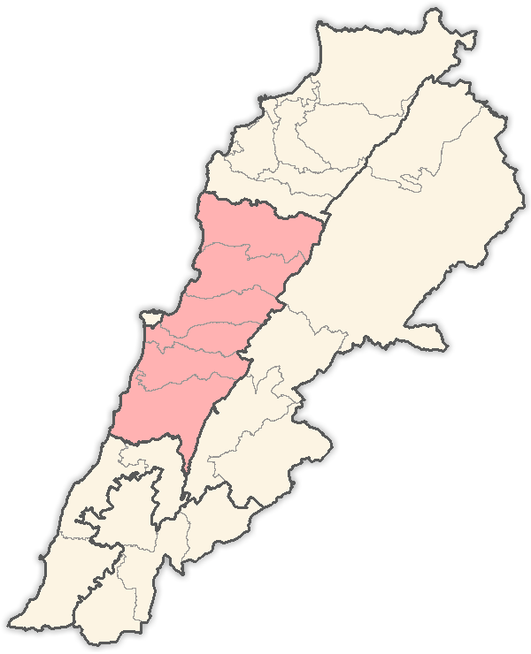 Map of Lebanon highlighting the Mount Lebanon Governorate.